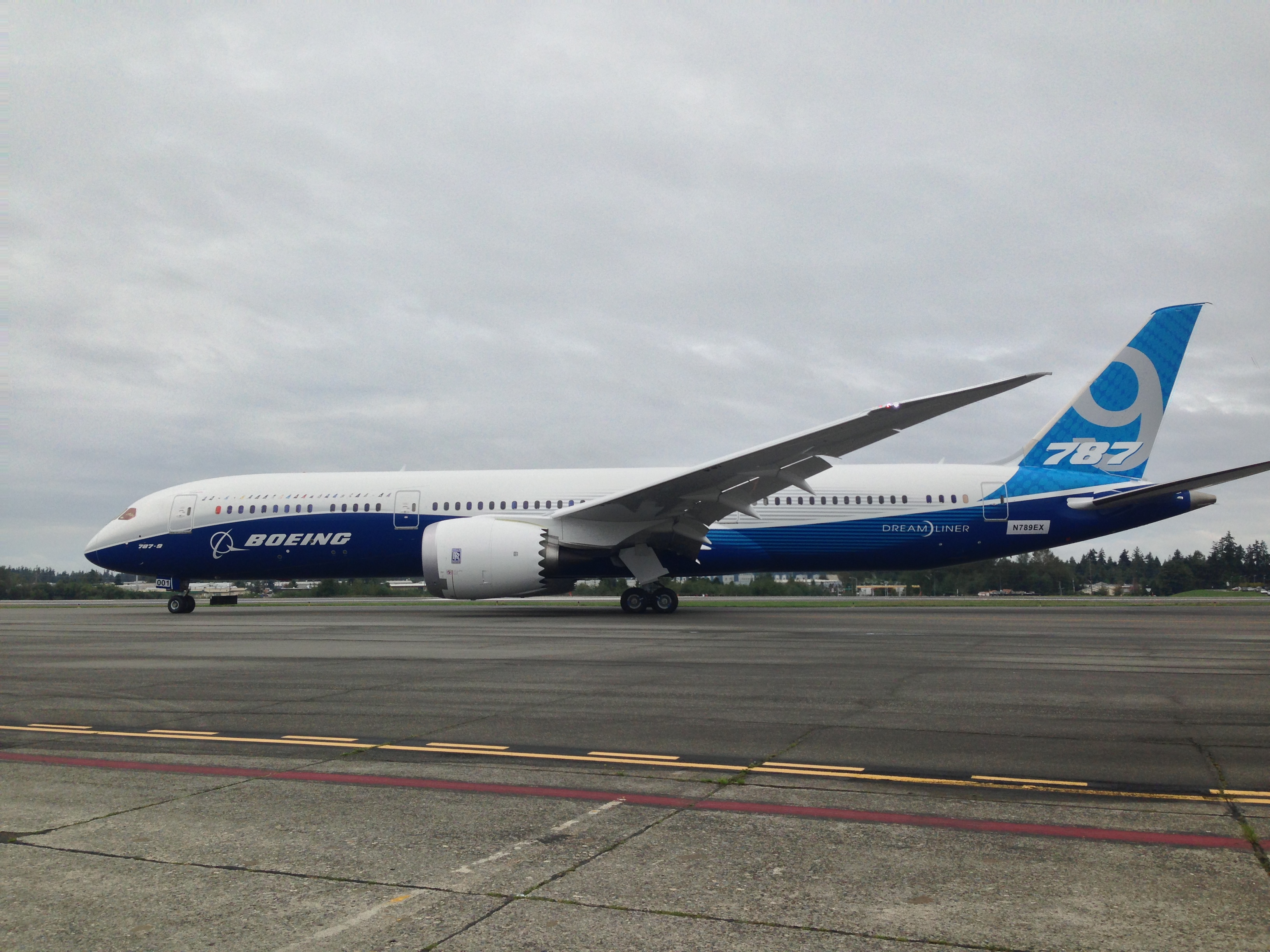 First Flight of the Boeing 787-9